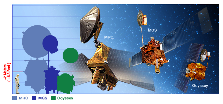 The Mars Reconnaisance Orbiter is a massive and capable spacecraft; it dwarfs its predecessors, Mars Global Surveyor and Mars Odyssey.